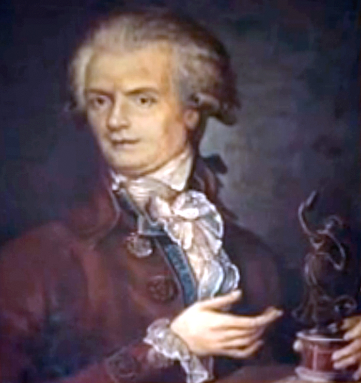 Portrait of Jean-Baptiste Landé († 1748), founder of the Russian Ballet Mariinsky Ballet